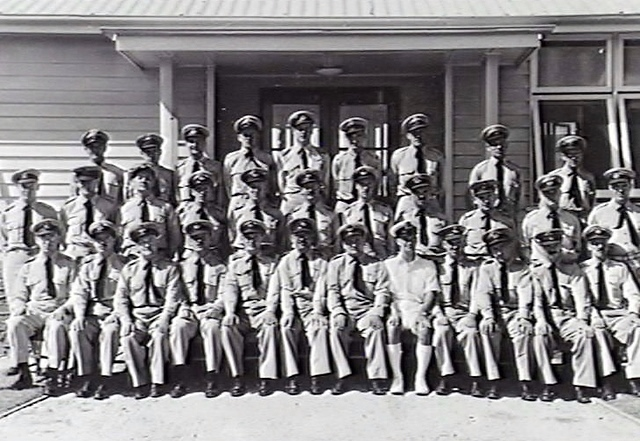 Archerfield, Qld. Group portrait of No. 1 Initial Flying Training School staff, RAAF